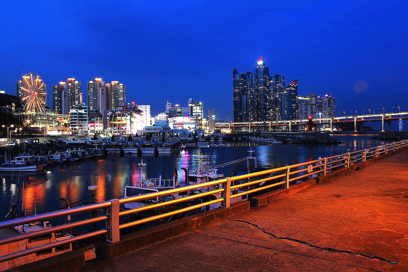 Haeundae veiw from Gwangalli